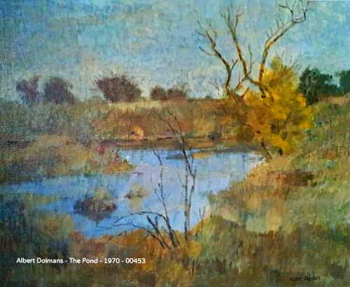 Along the Sacramento River by Albert Dolmans Oil painting, 1970